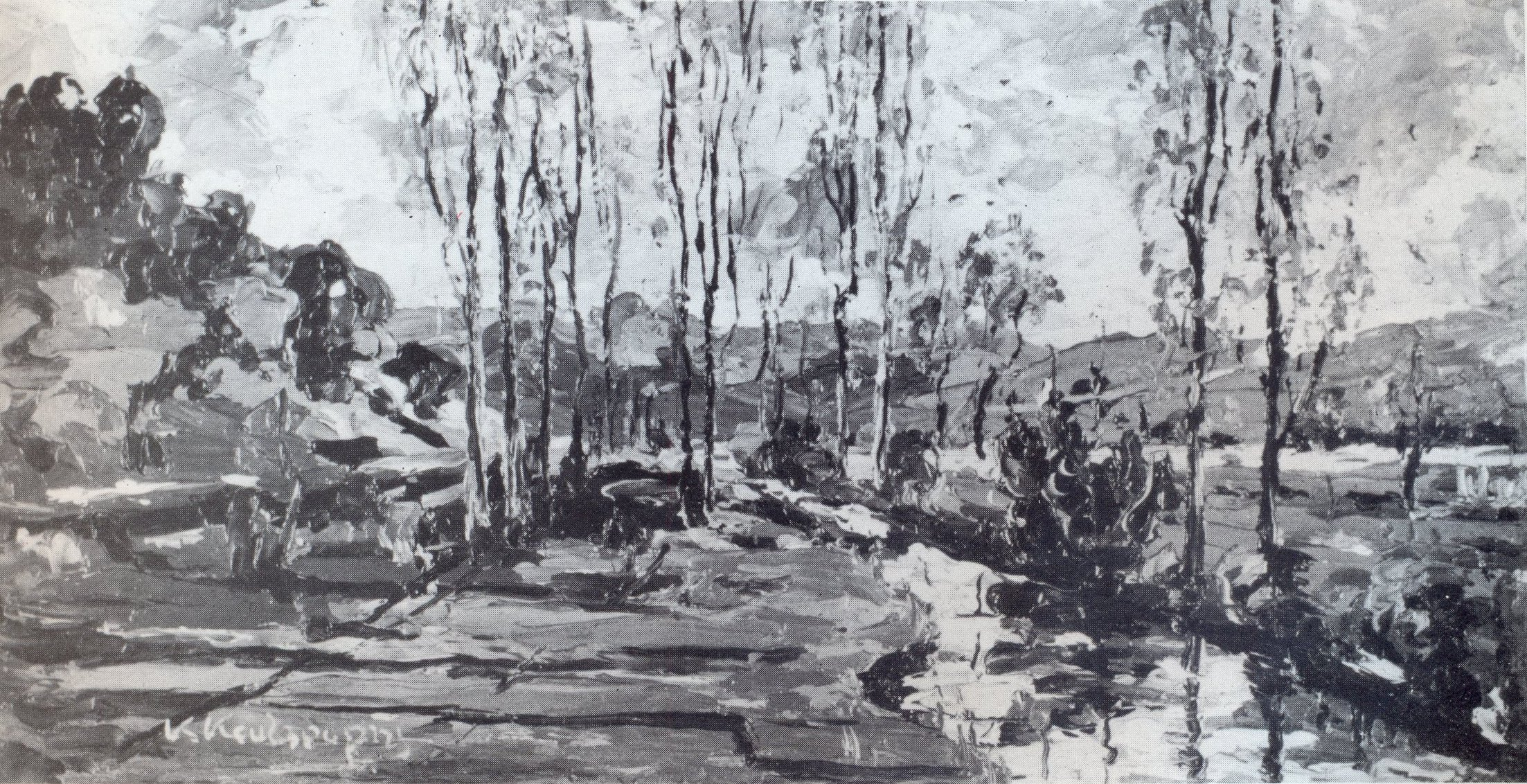 Vouraikos River at Kalavryta-Peloponnese painted in 1937. This is a 1st period artworks of Costas Koutsouris